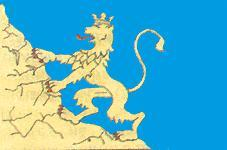 The historic flag of the Lviv Territory.